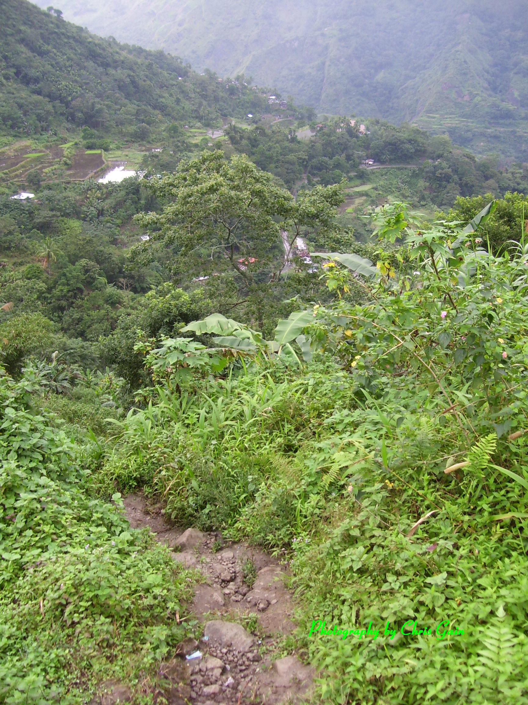 Only access from roadside (mid centre) to Upper Uma Elementary School, Kalinga (behind). Viewed December 2008.